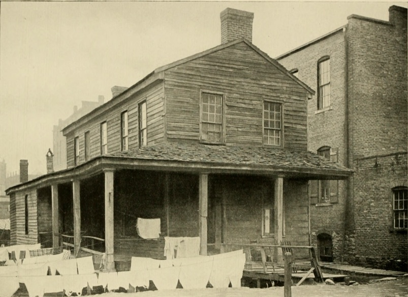 Holland House (b. 1848 or 1842) at the time oldest house in Atlanta from 1904 book